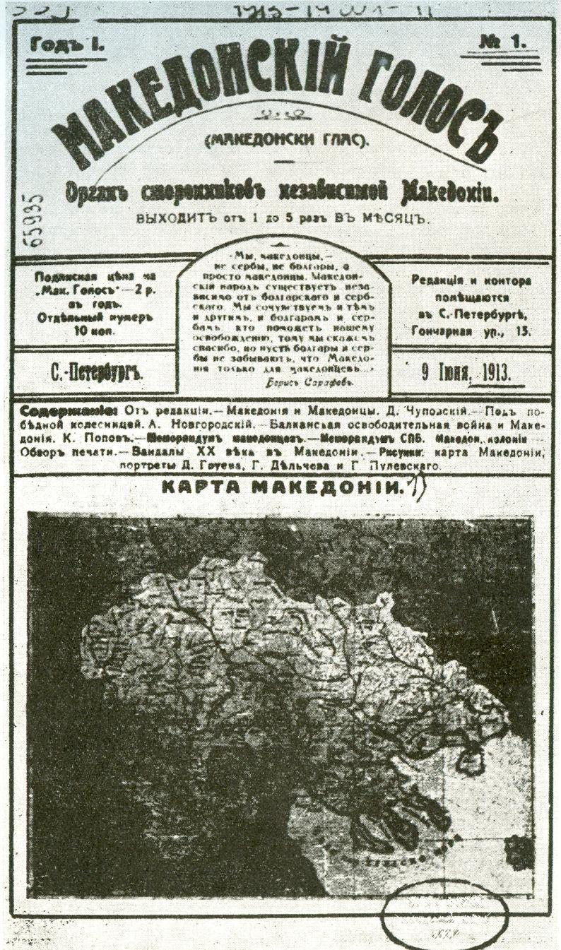 The front page of the first number of the "Macedonian Voice" newspaper published by ethnic Macedonians in Sankt Peterburg from 1913 till 1918.